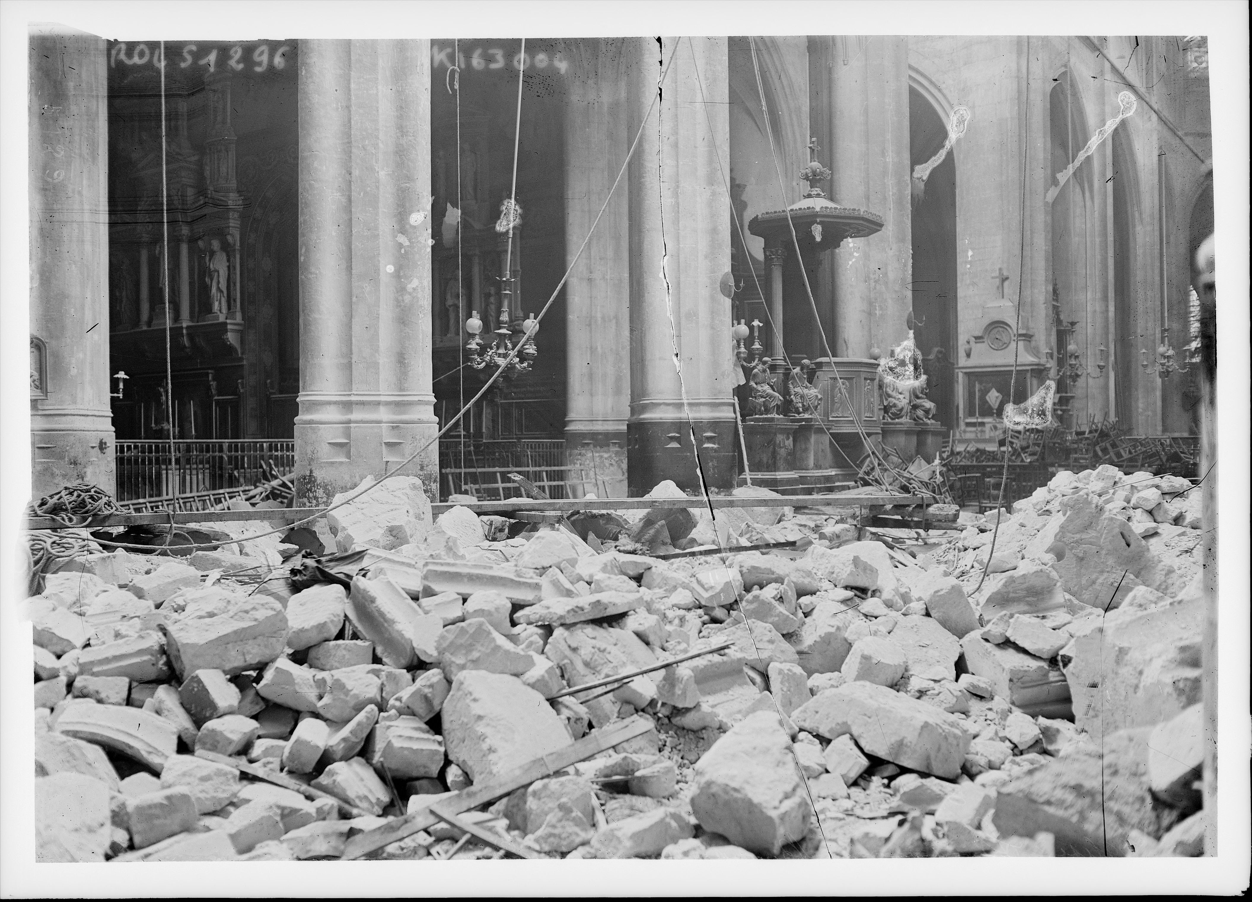 St. Gervais church, Paris, after the German Paris Gun bombing , March 29th, 1918